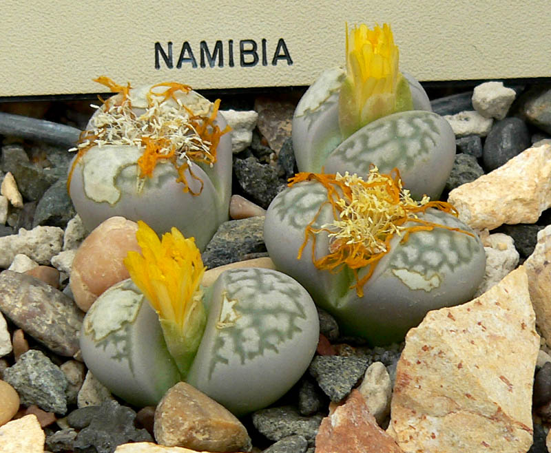 Photo of Lithops herrei at the University of California Botanical Garden